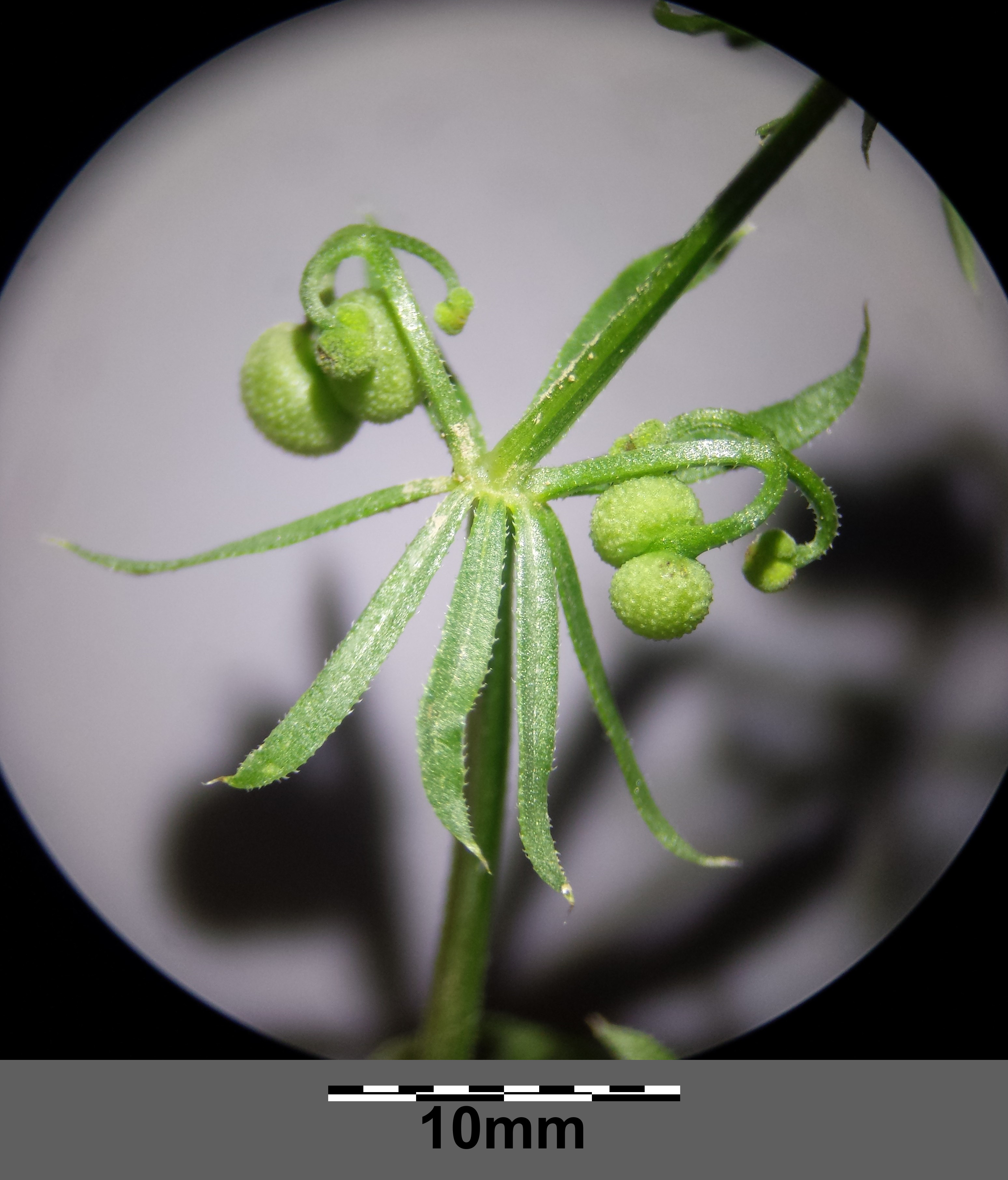 Infructescence Taxonym: Galium tricornutum ss Fischer et al. EfÖLS 2008 ISBN 978-3-85474-187-9 Location: Dernberg, Nappersdorf-Kammersdorf, district Hollabrunn, Lower Austria - ca. 270 m ü. A. Habitat: field